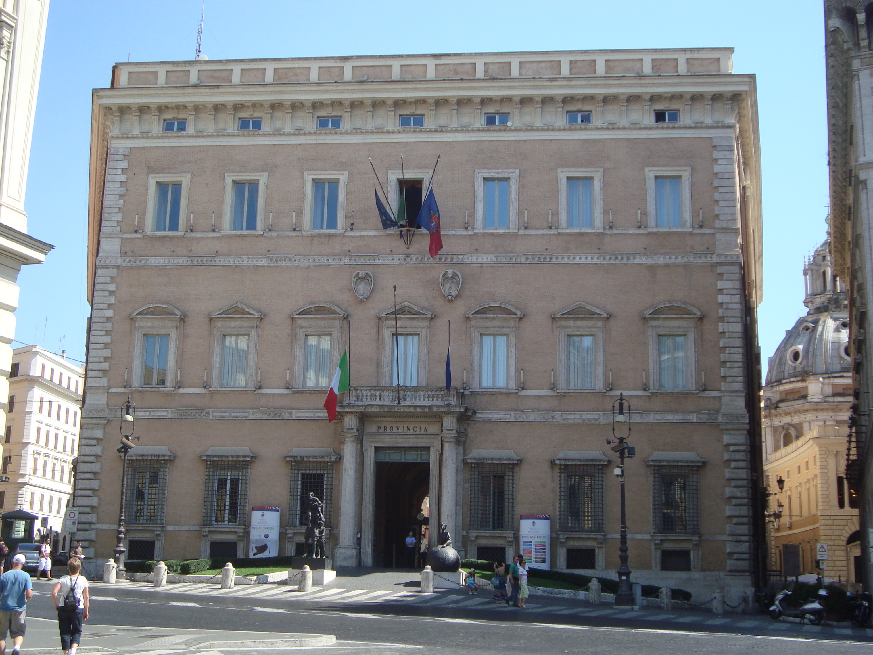 View of the Palazzo Valentini in Rome which hosts the administration of the Provincia di Roma.